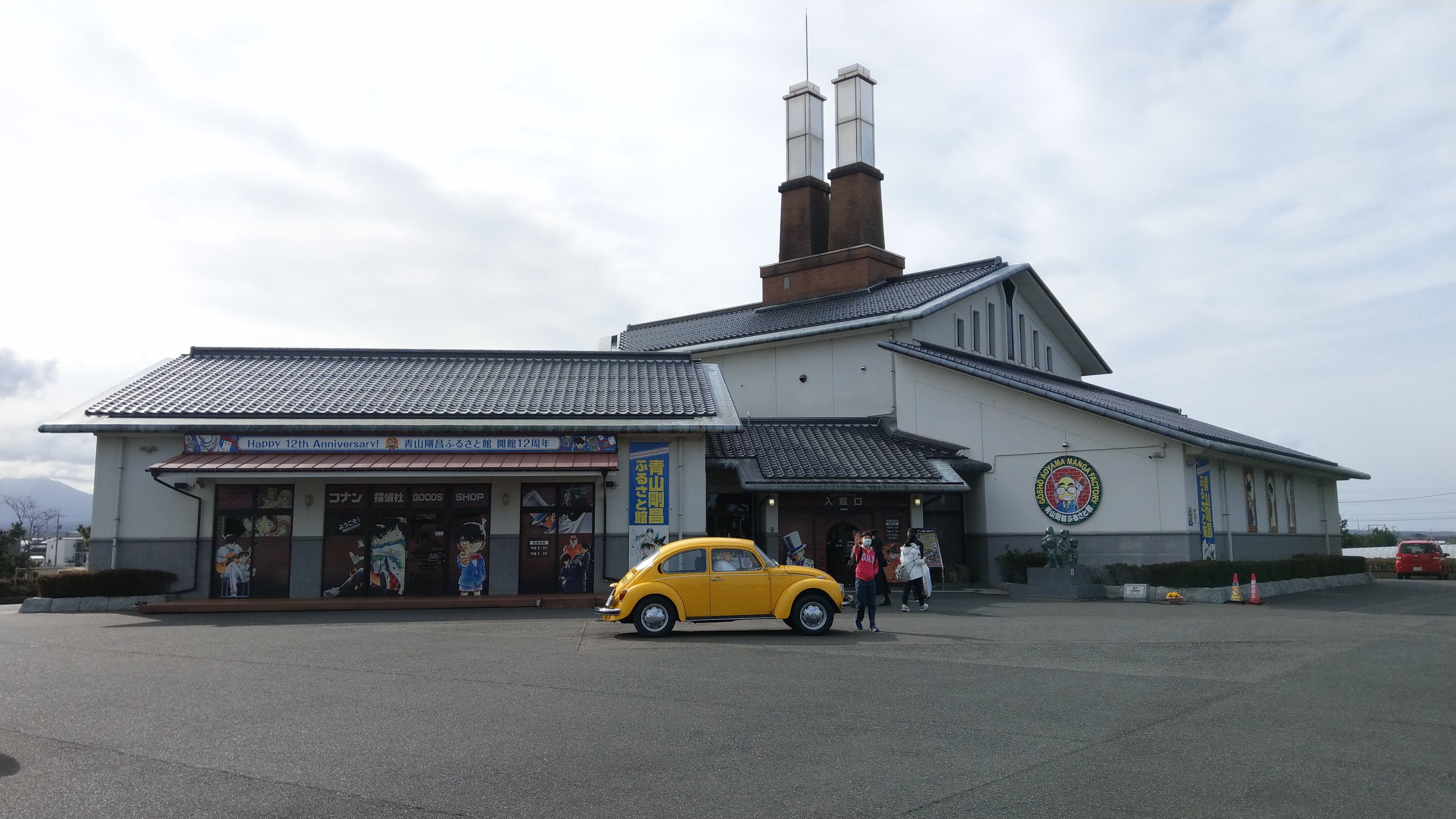 Gosho Aoyama Manga Factory in Hokuei, Tottori, Japan.